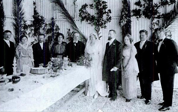 Wedding of Sarah Aaronsohn and Haim Abraham